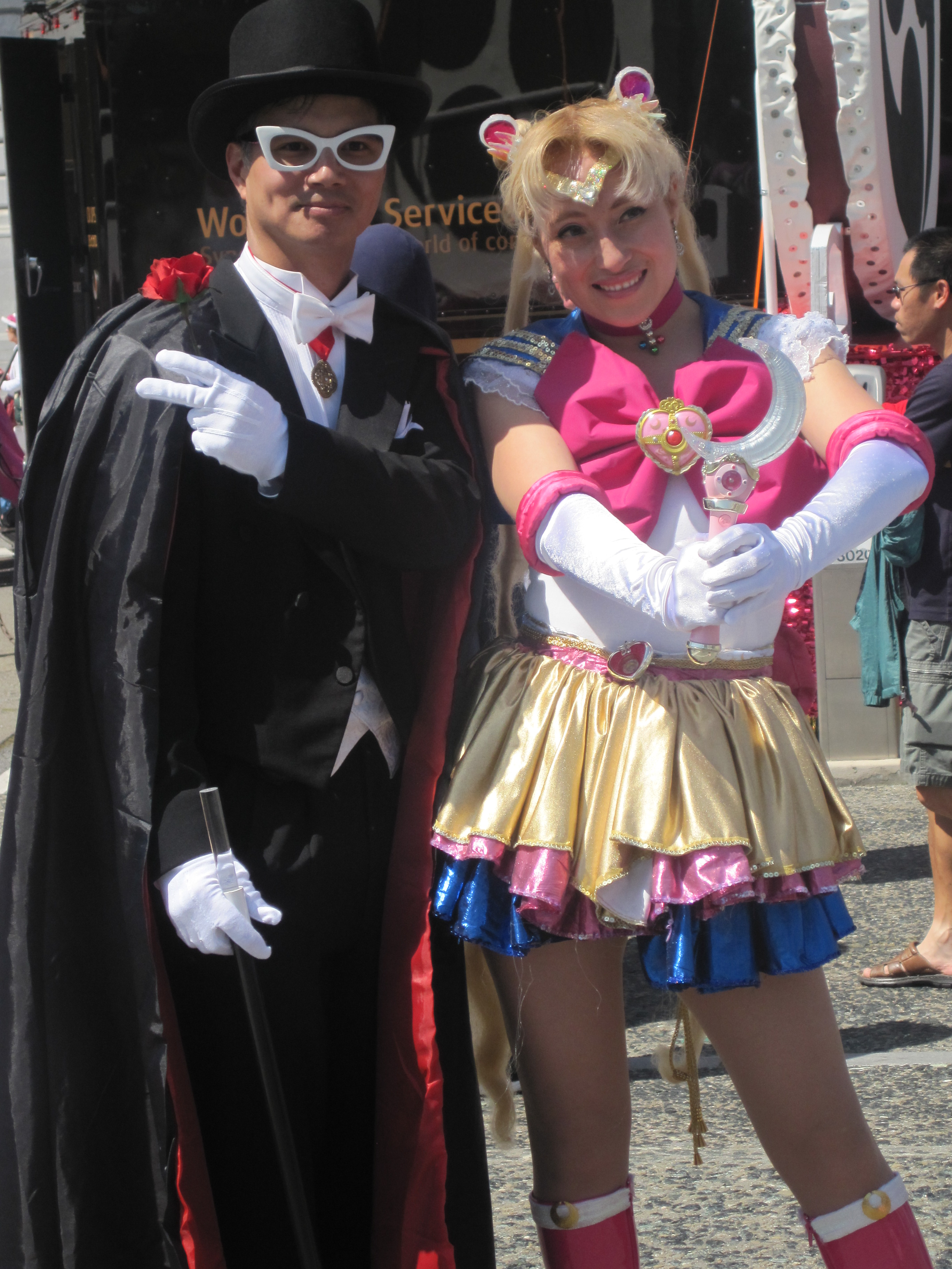 Cosplayers portraying Tuxedo Mask and Sailor Moon from Sailor Moon at the Northern California Cherry Blossom Festival.